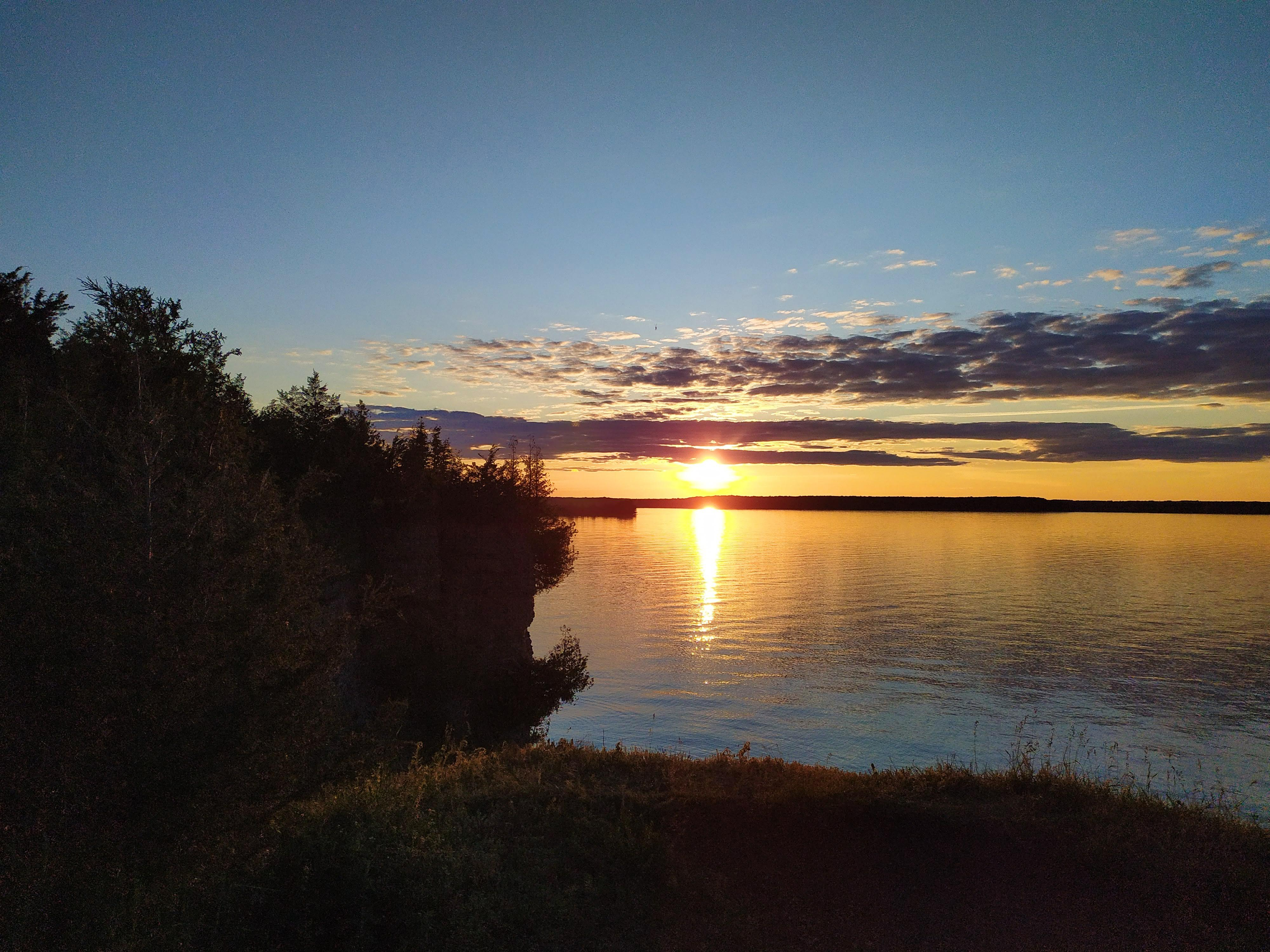 This place is extraordinary. It is a place where you can go on a rocky Cliff, see the sun that is about to set and also enjoy pebbley water bed. An island for kayaking all day and family outing.